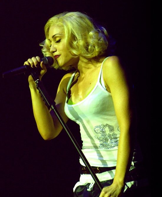 Gwen Stefani performing "Luxurious" in Duluth, Georgia, United States